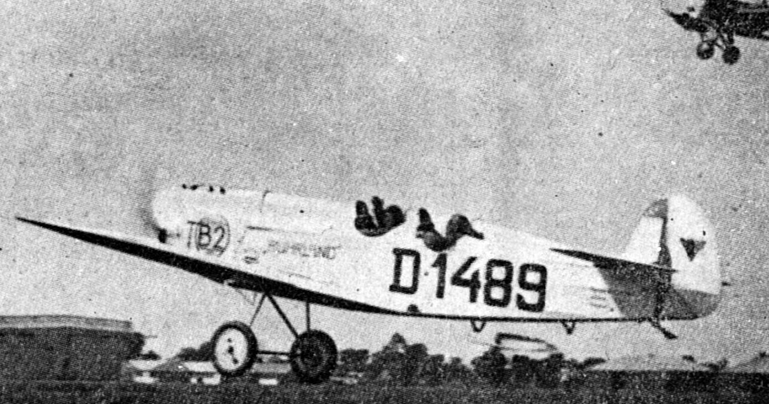 Raab-Katzenstein RK 25 „Ruhrland“ photo from L'Air August 15,1929